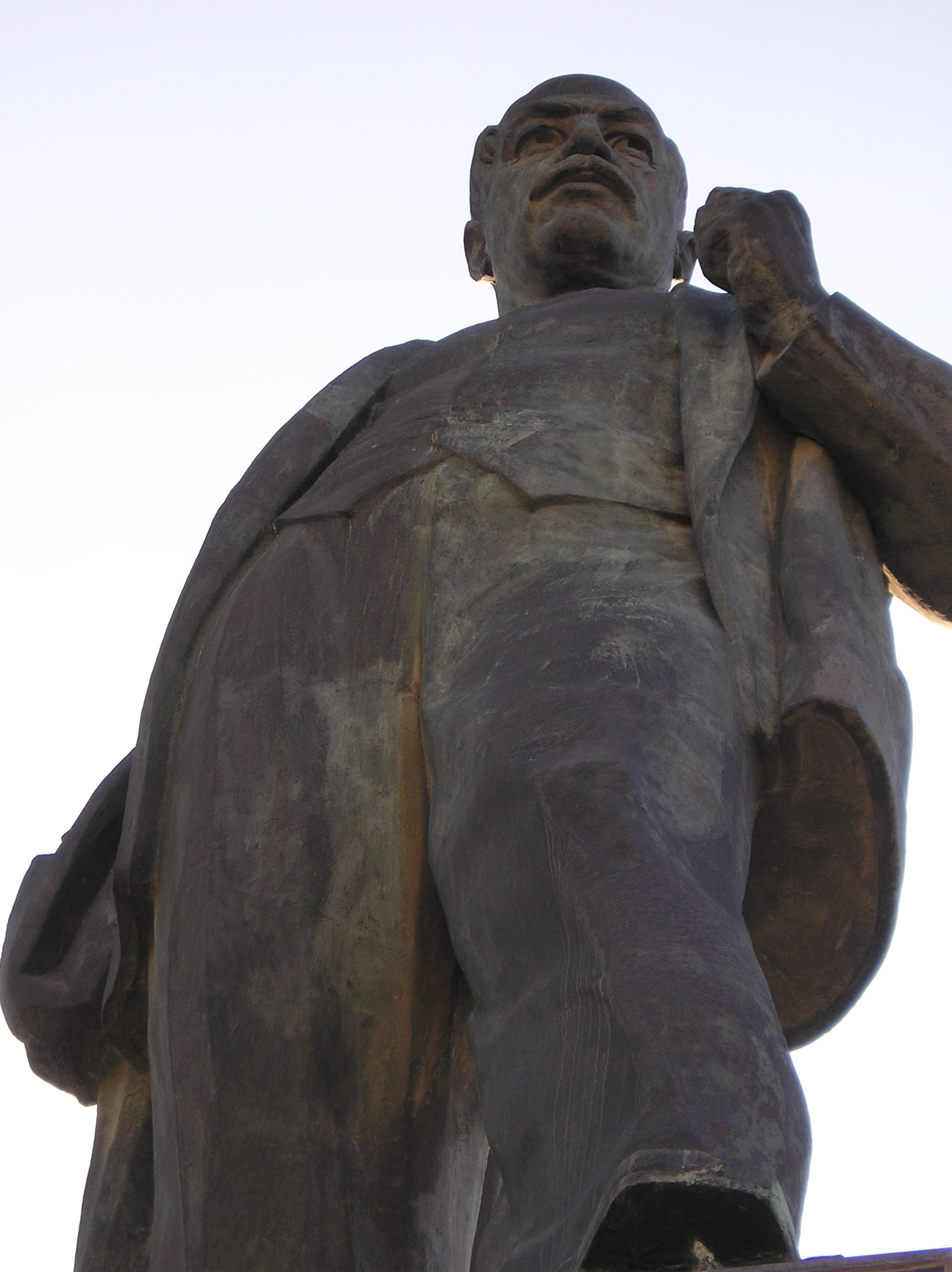 Statue of Nariman Narimanov in Baku